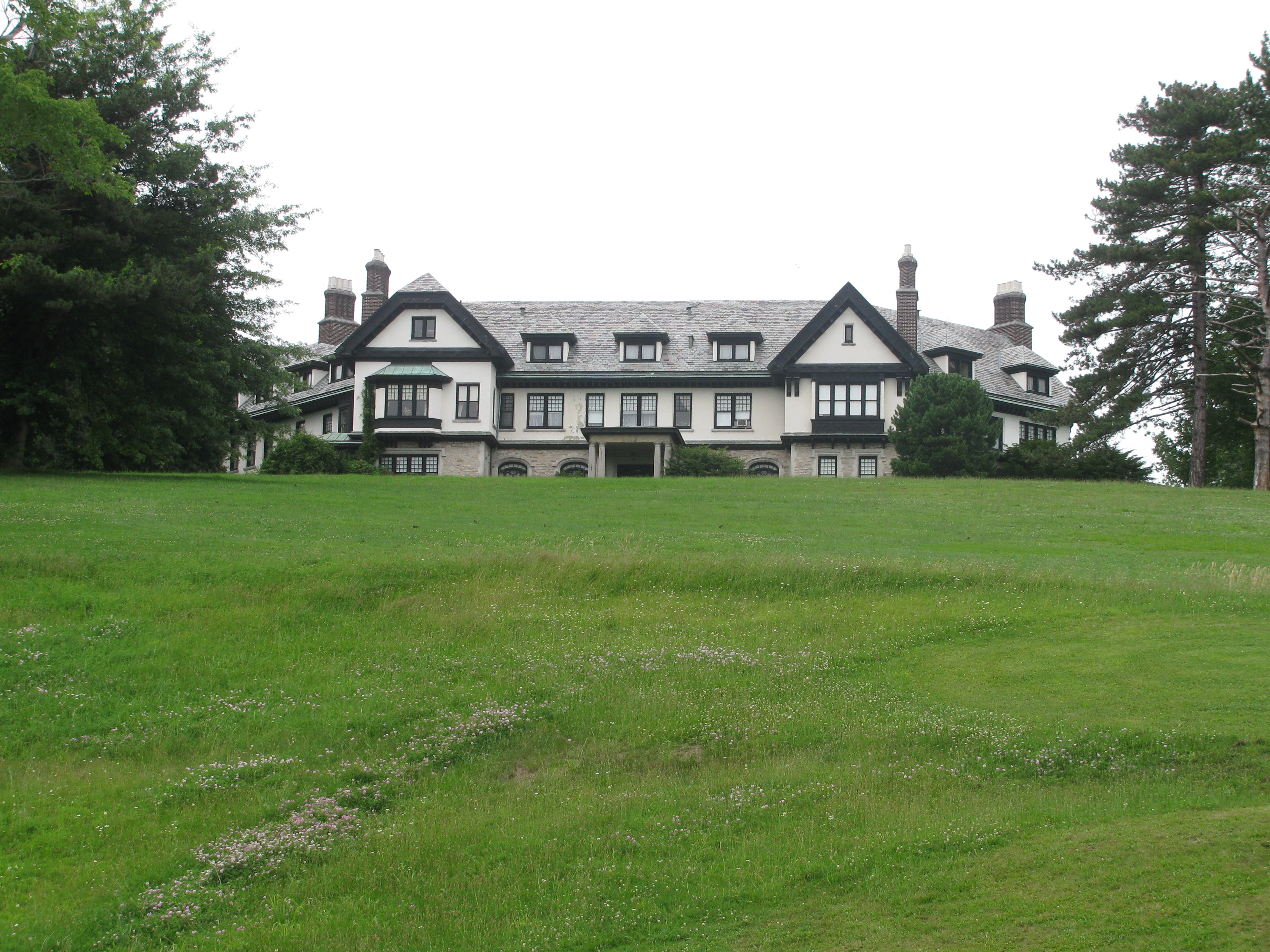 Front of Linden Hall at Saint James Park, located on Linden Hall Road northwest of Dawson in Lower Tyrone Township, Fayette County, Pennsylvania, United States. Built in 1911, it is listed on the National Register of Historic Places.